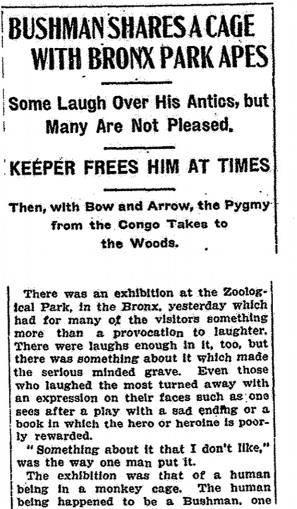 New York times article covering Ota Benga's display in Bronx Zoo